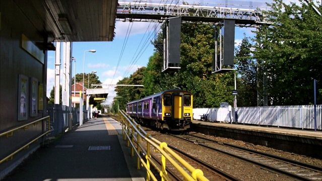 Navigation Road railway station